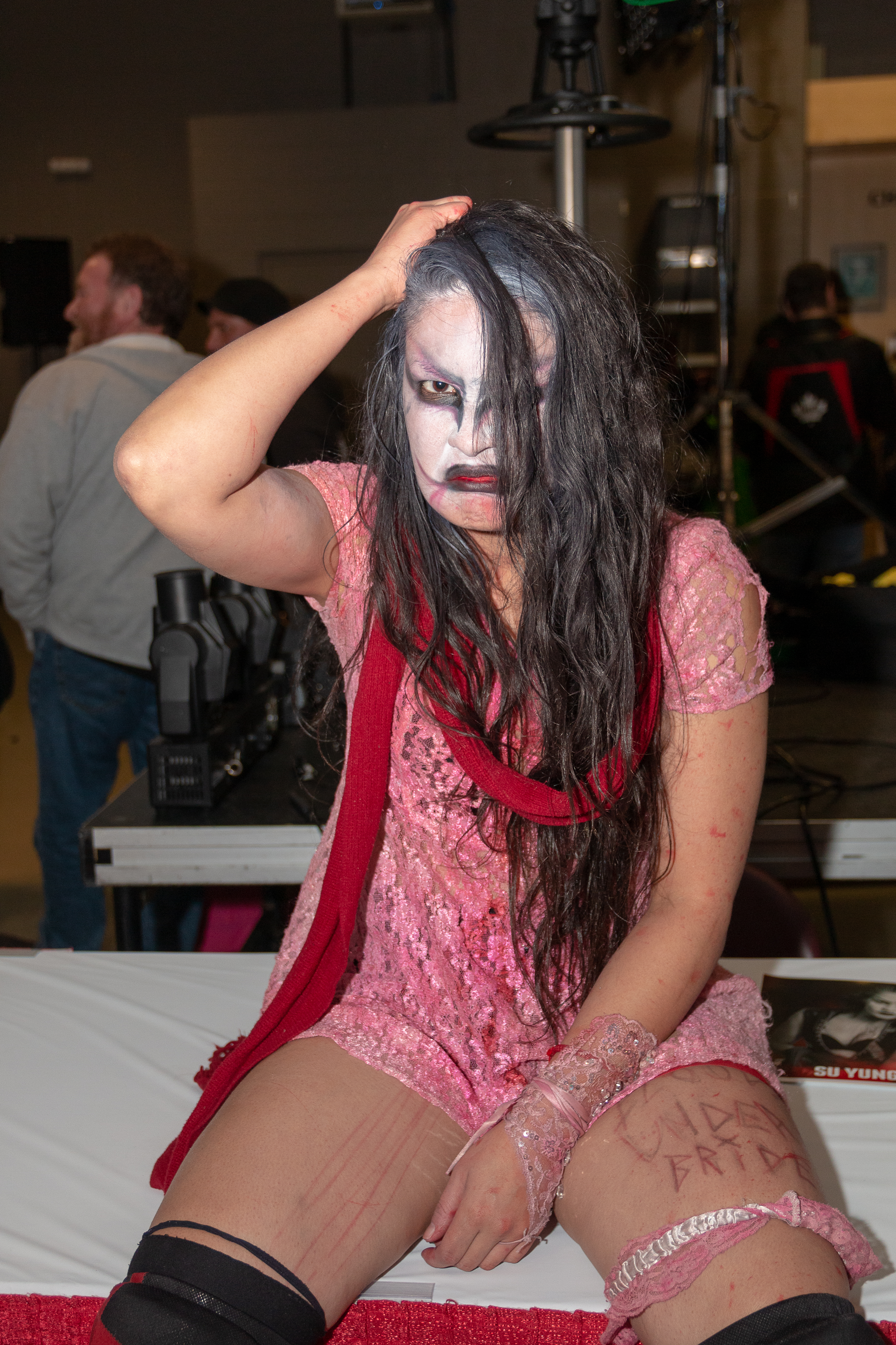 Pro wrestler Su Yung photographed post-event at Smash Wrestling's Canusa 2018 show in London, ON